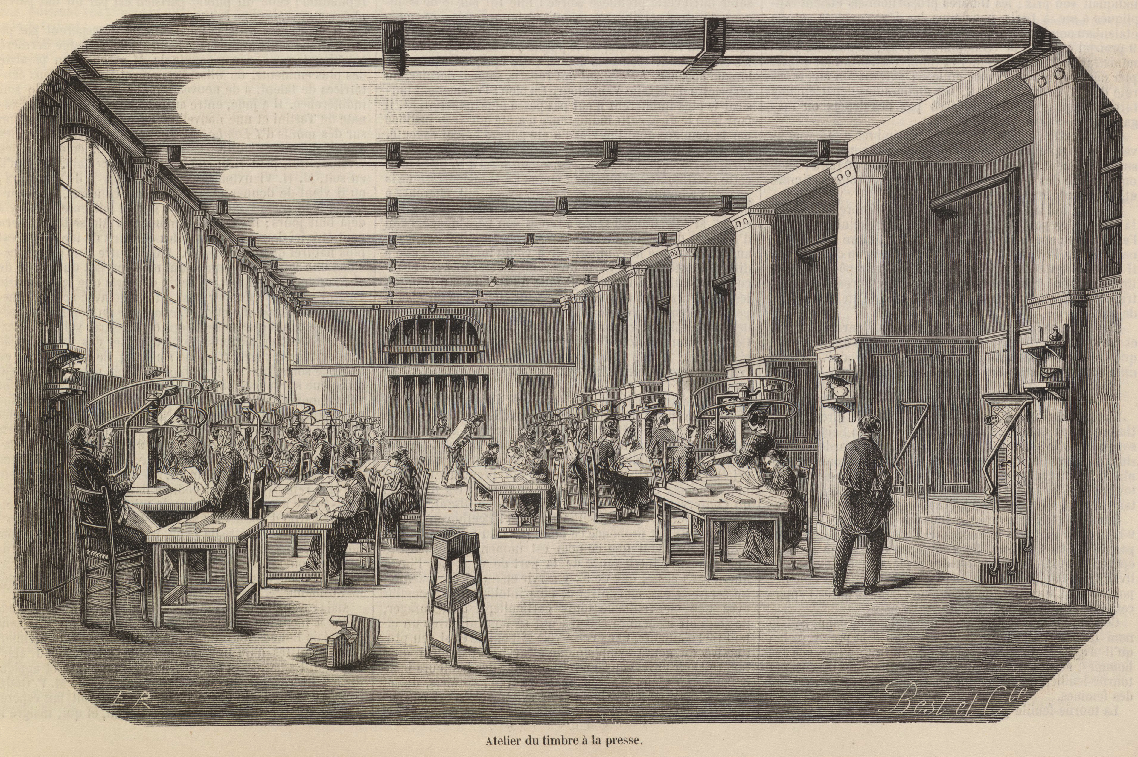 This print depicts the main room of the building that housed the fabrication of stamps during the Second Empire. The Illustration dedicates a full article to this new building, which had just been finished in 1853. The text accompanying this image praises the Roman-inspired architecture and interior decoration of the new hôtel.